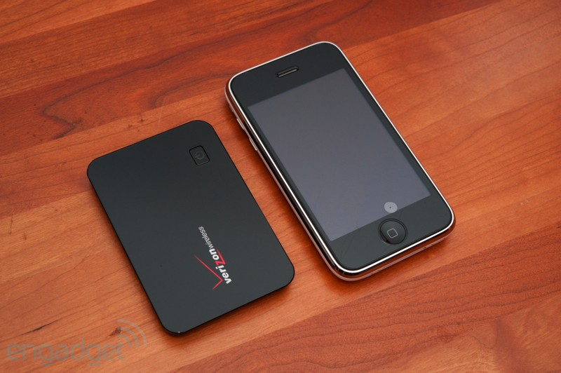 external Novatel Mifi UMTS modem compared to the Apple iPhone. Connects several devices to the internet using wifi. Test: nDevilTV (german)